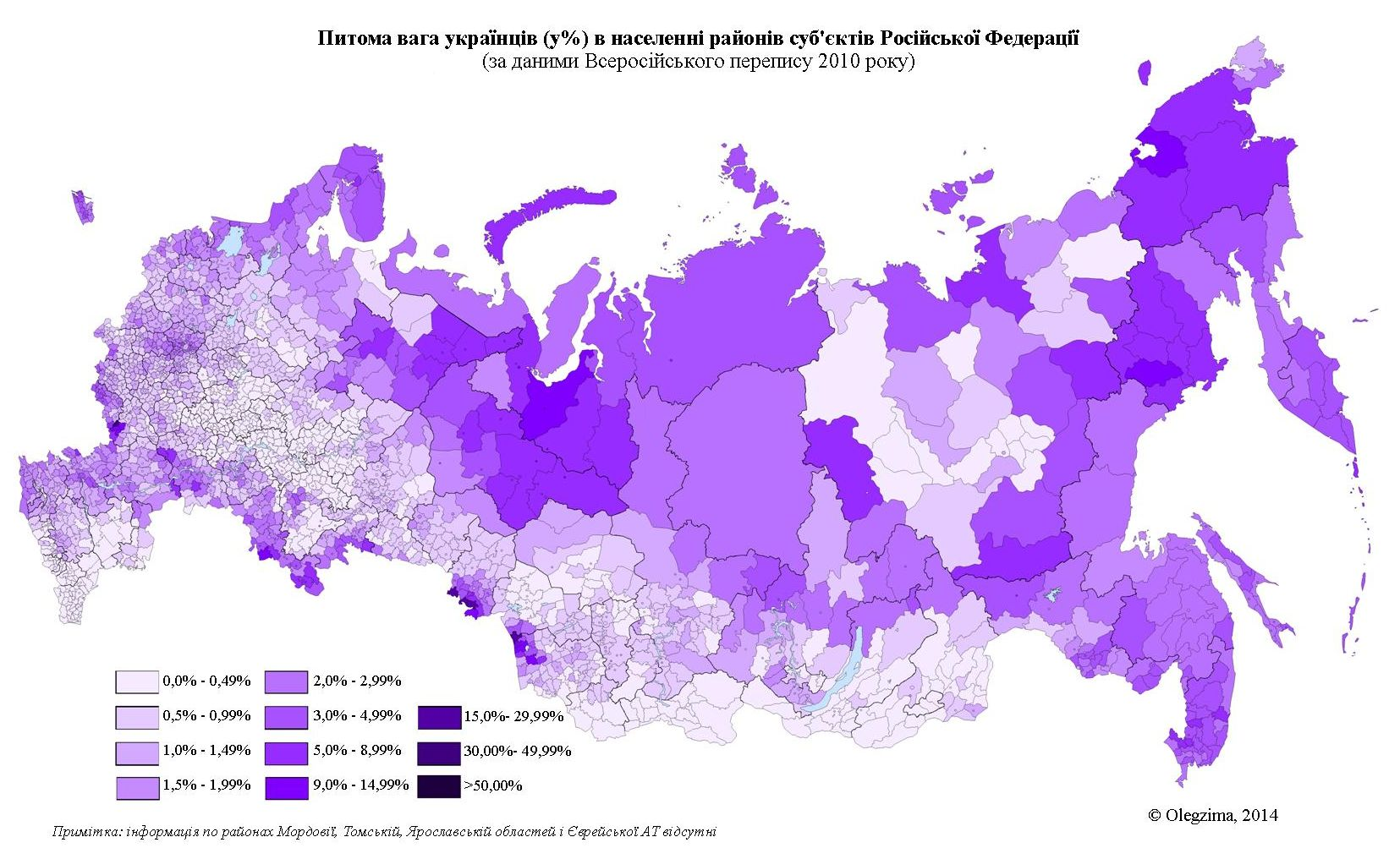 Ukrainians share in the population of districts of the Russia